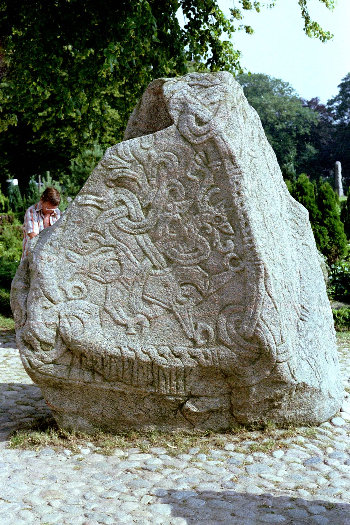 The famous rune stone of Jellinge, Denmark with the big lion.